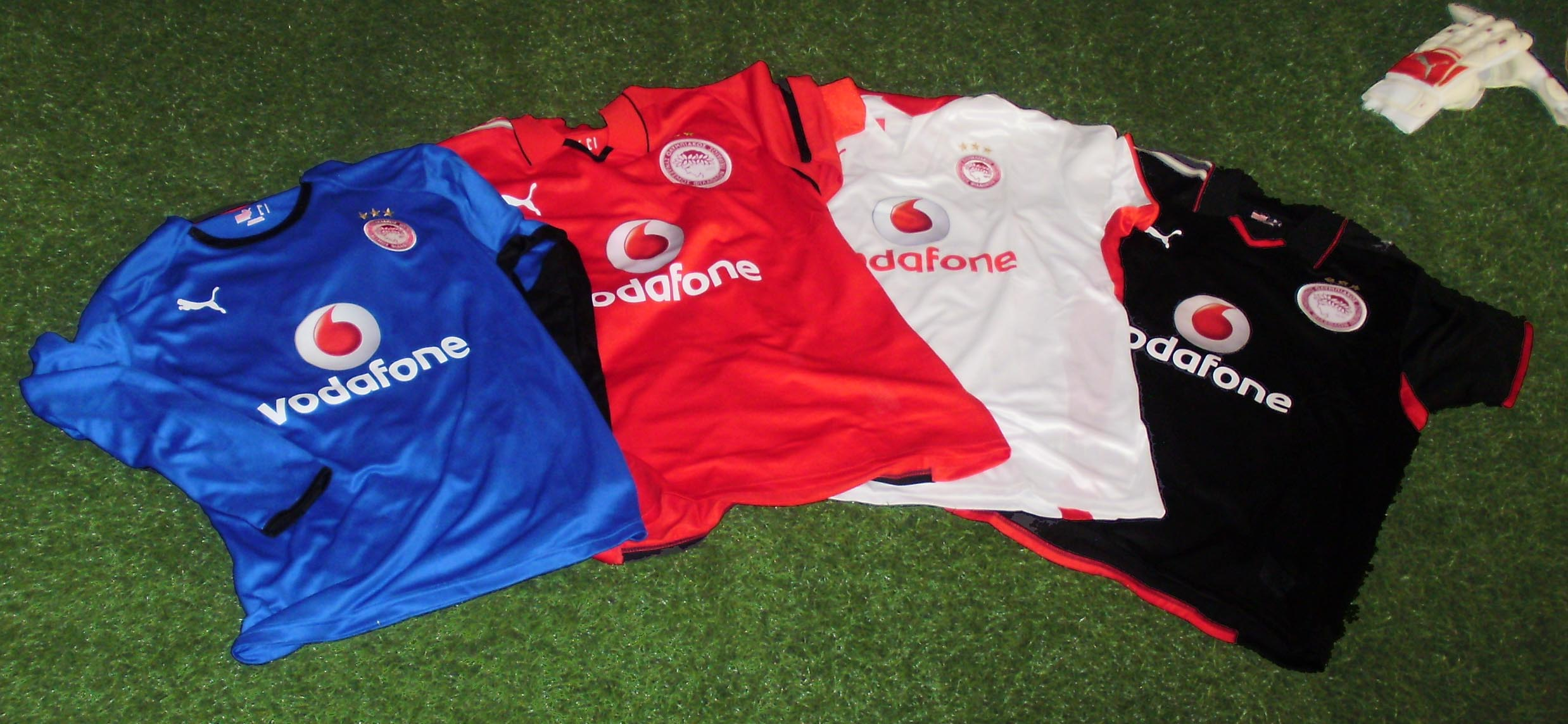 Olympiakos_Shirts_2008-2009 from Athens sports Show 2008